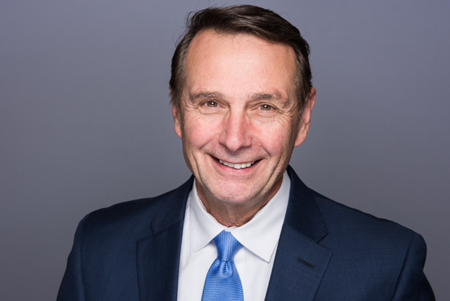 Richard Borer 2018 Headshot